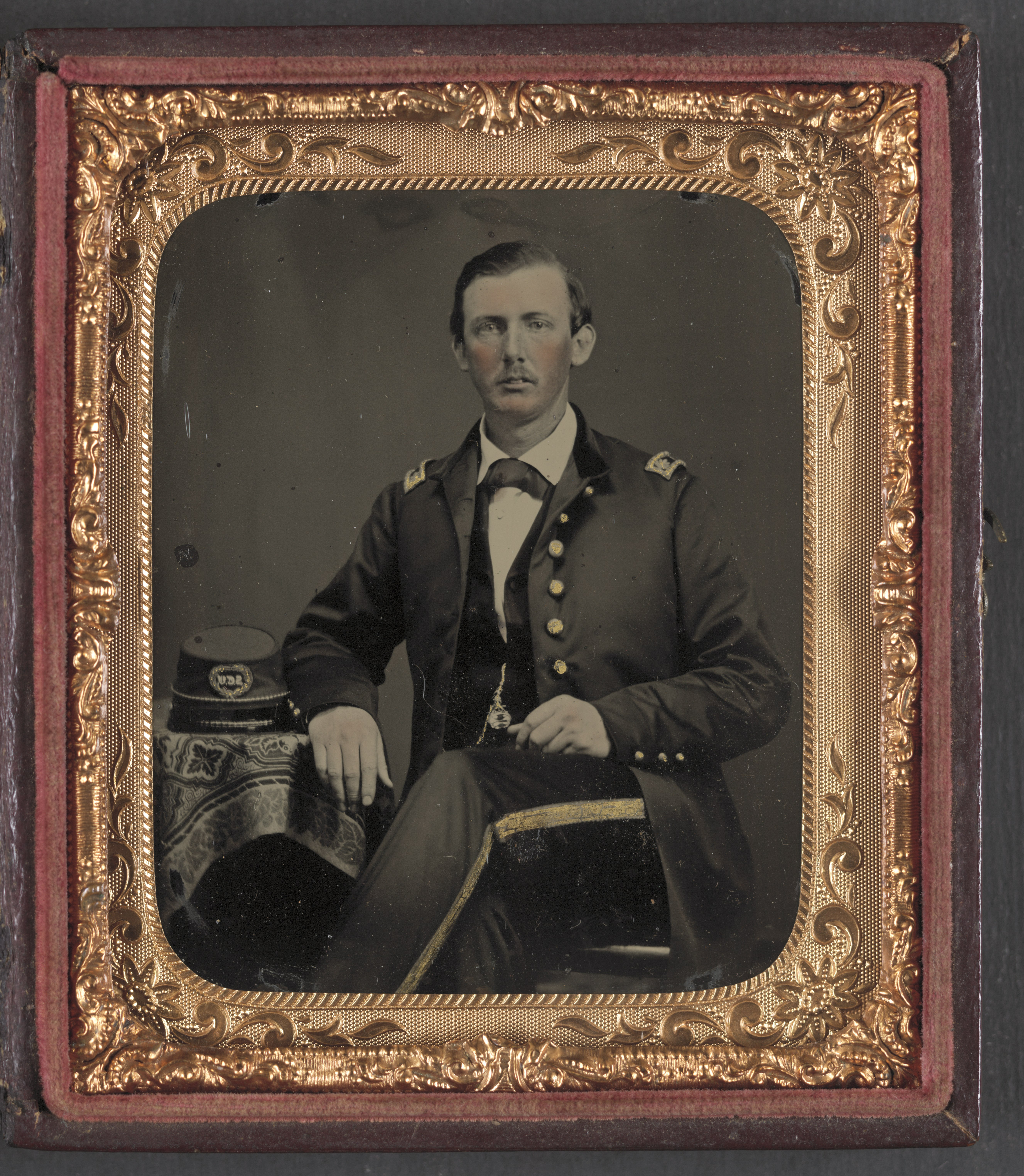 Title: Captain James Dugan Gist of General & Staff Confederate States Infantry Regiment in uniform with South Carolina Volunteers kepi Abstract/medium: 1 photograph : sixth-plate ambrotype, hand-colored ; 9.2 x 8.1 cm (case)